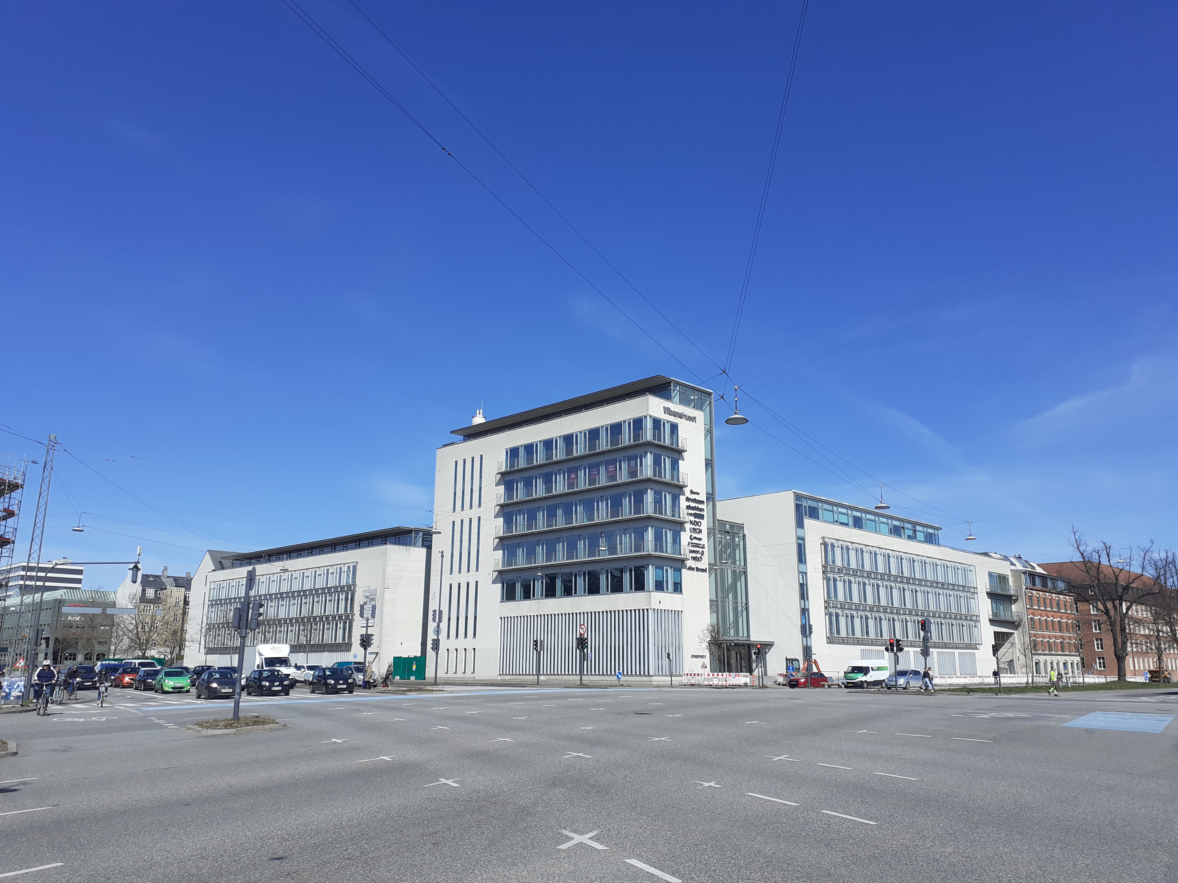 The office building complex Vibenshuset at Vibenshus Runddel in Østerbro in Copenhagen.